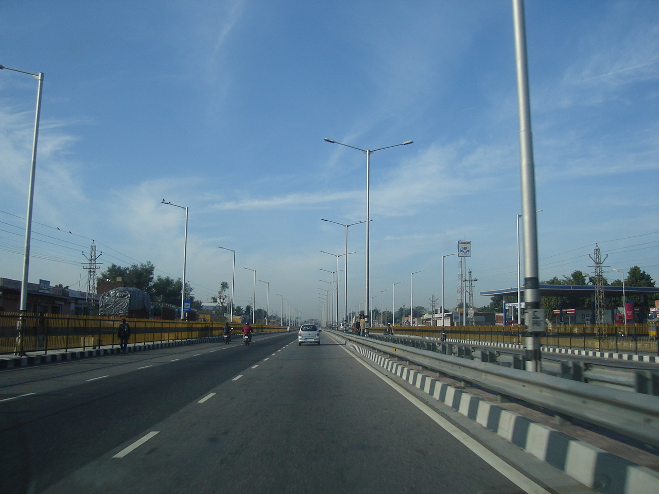 A view of Jaipur to Ajmer Road in Rajasthan (India)